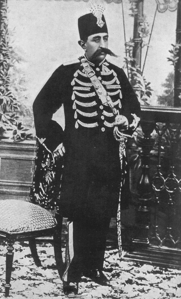 Mozaffar ad-Din Shah Qajar (1853-1907) in 1902.